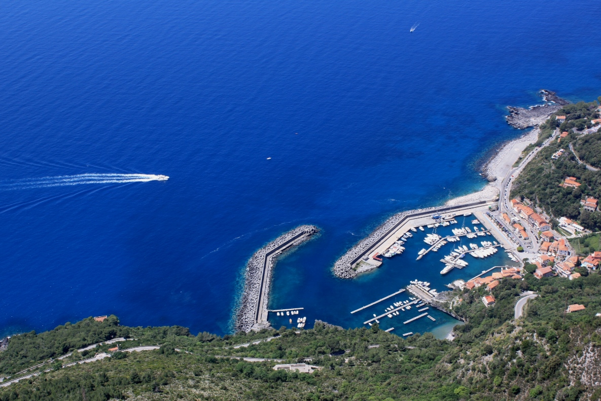 Maratea's harbour.